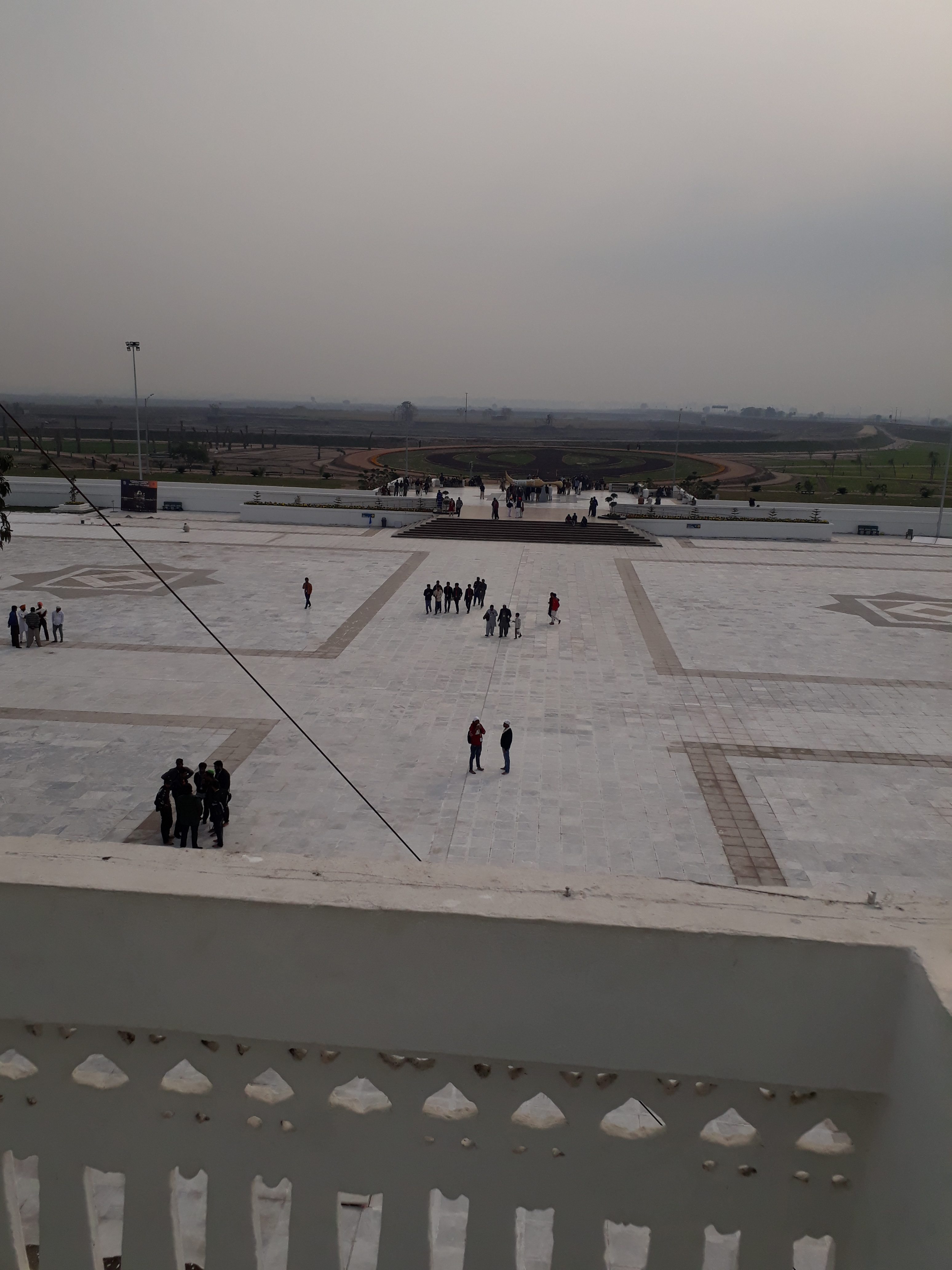 Ground is laid with fine marble